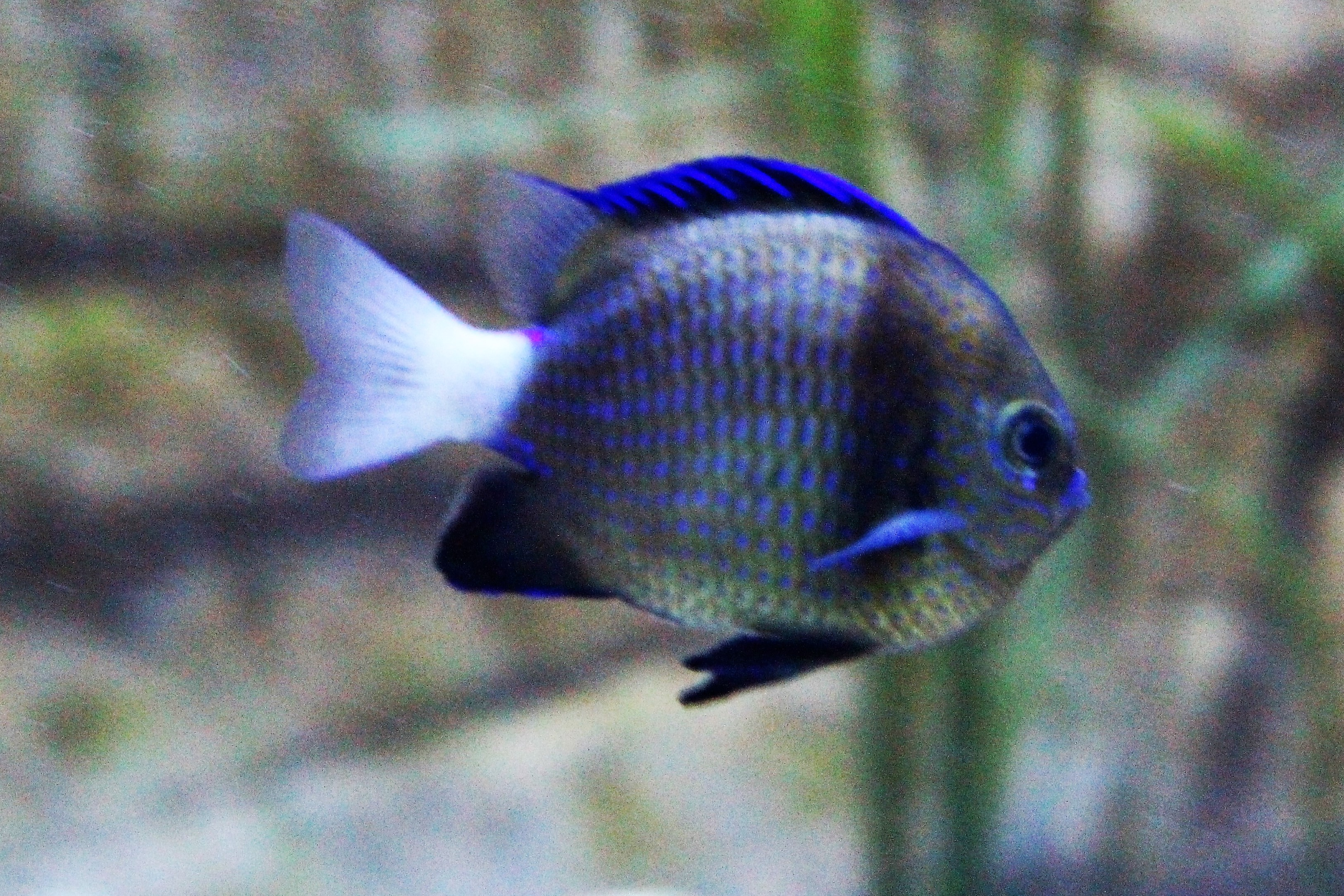 Chromis hanui at the Scarborough SEA LIFE Sanctuary in England.